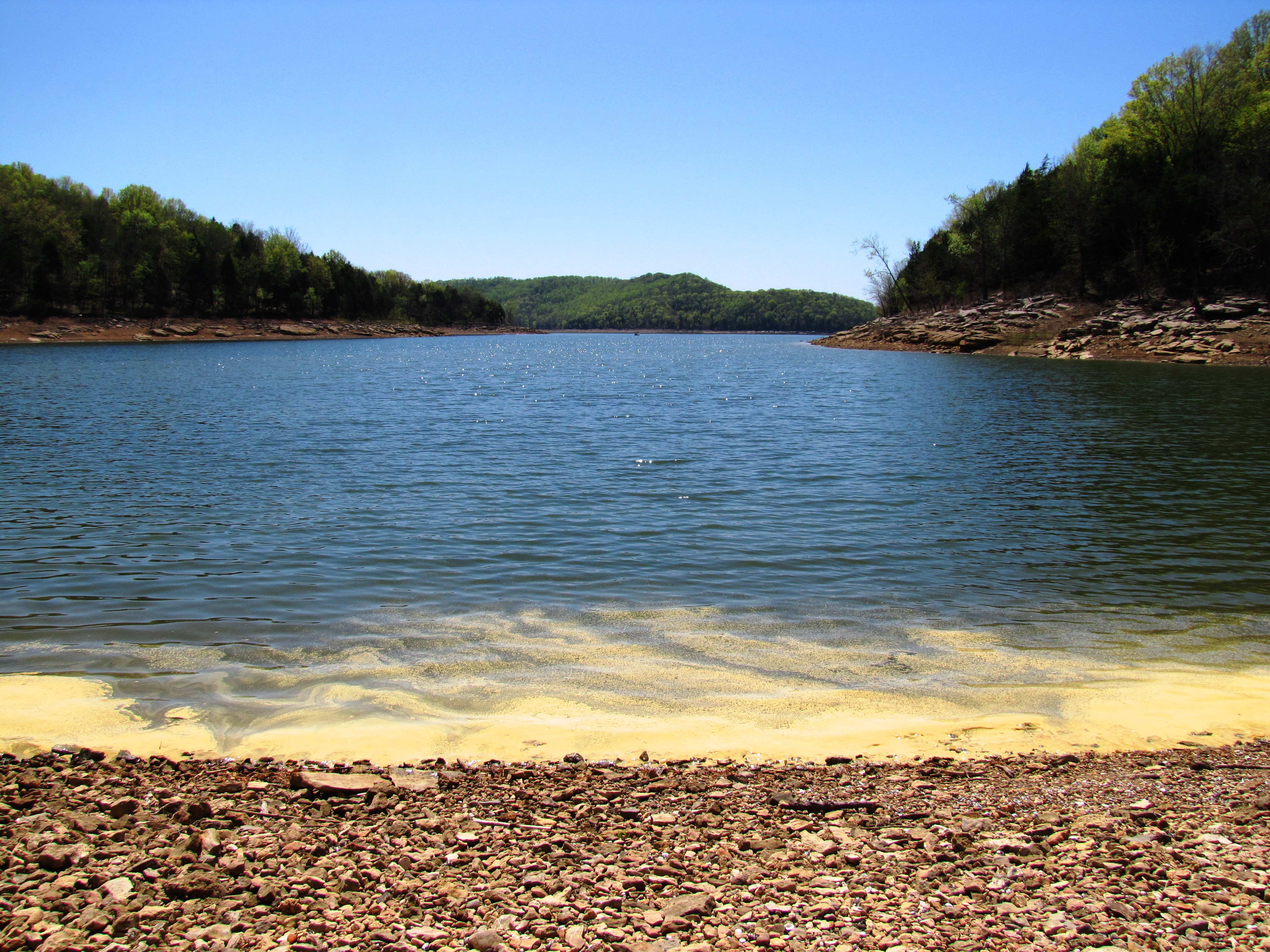 Pollen washing up on the shores of Center Hill Lake at Edgar Evins State Park in the U.S. state of Tennessee.